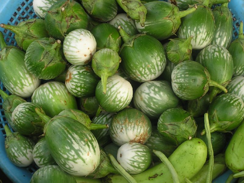 Thai eggplants at a market in Guam